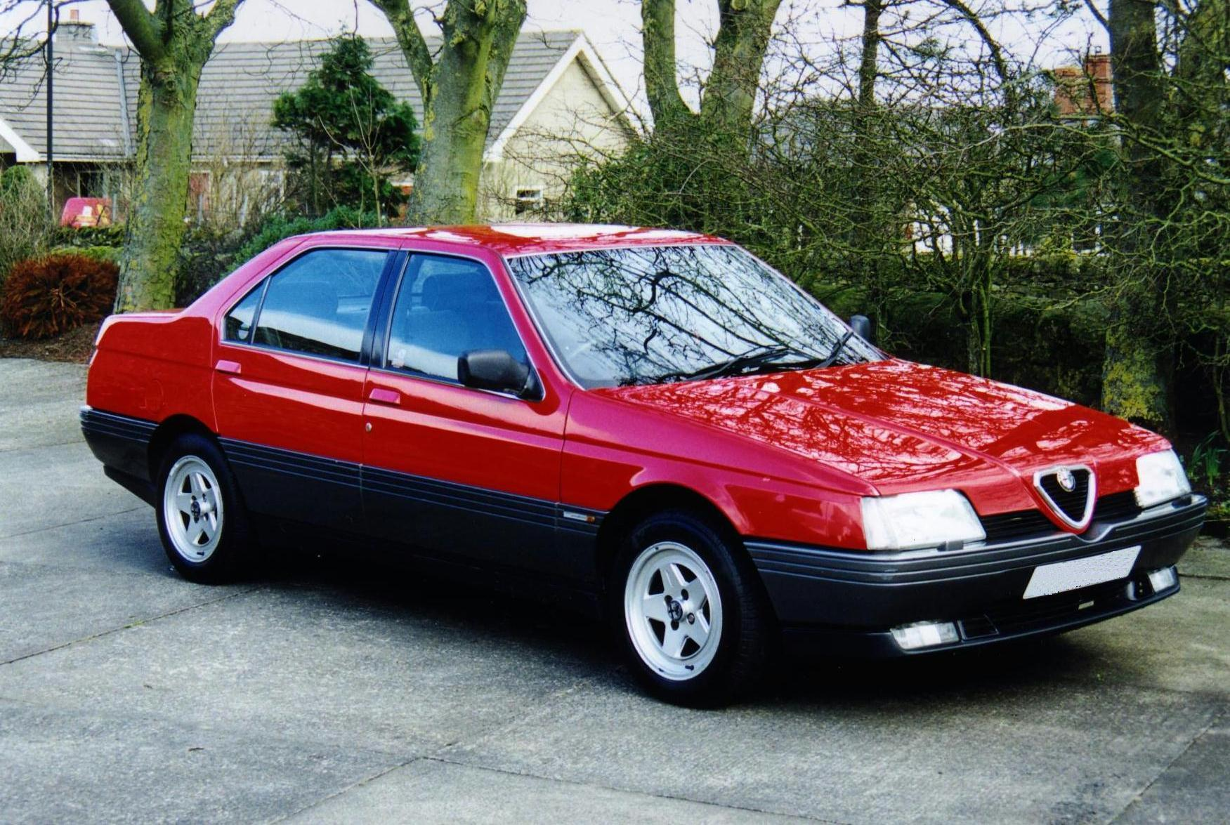 The start of my exotic car ownership. I still like 164s.